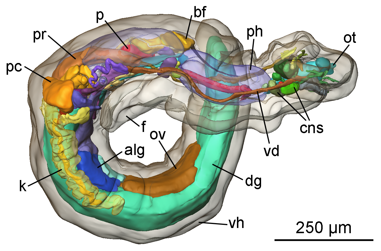 3D reconstruction of the general anatomy of the right side view of small marine slug Pseudunela viatoris from Fiji. ot - oral tube, cns - central nervous system, ph - pharynx, vd - vas deferens, bf - basal finger, p - penis, pr - prostate, pc - pericardium, f - foot, k - kidney, alg - albumen gland, ov - ovotestis, vh - visceral hump, dg - digestive gland.